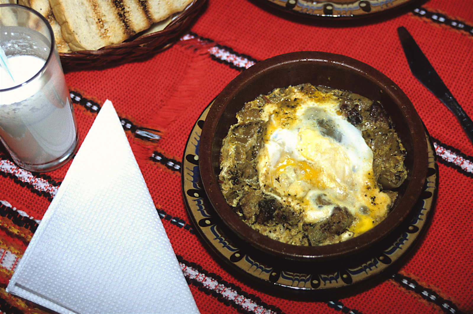 Kavarma, a dish from Bulgaria